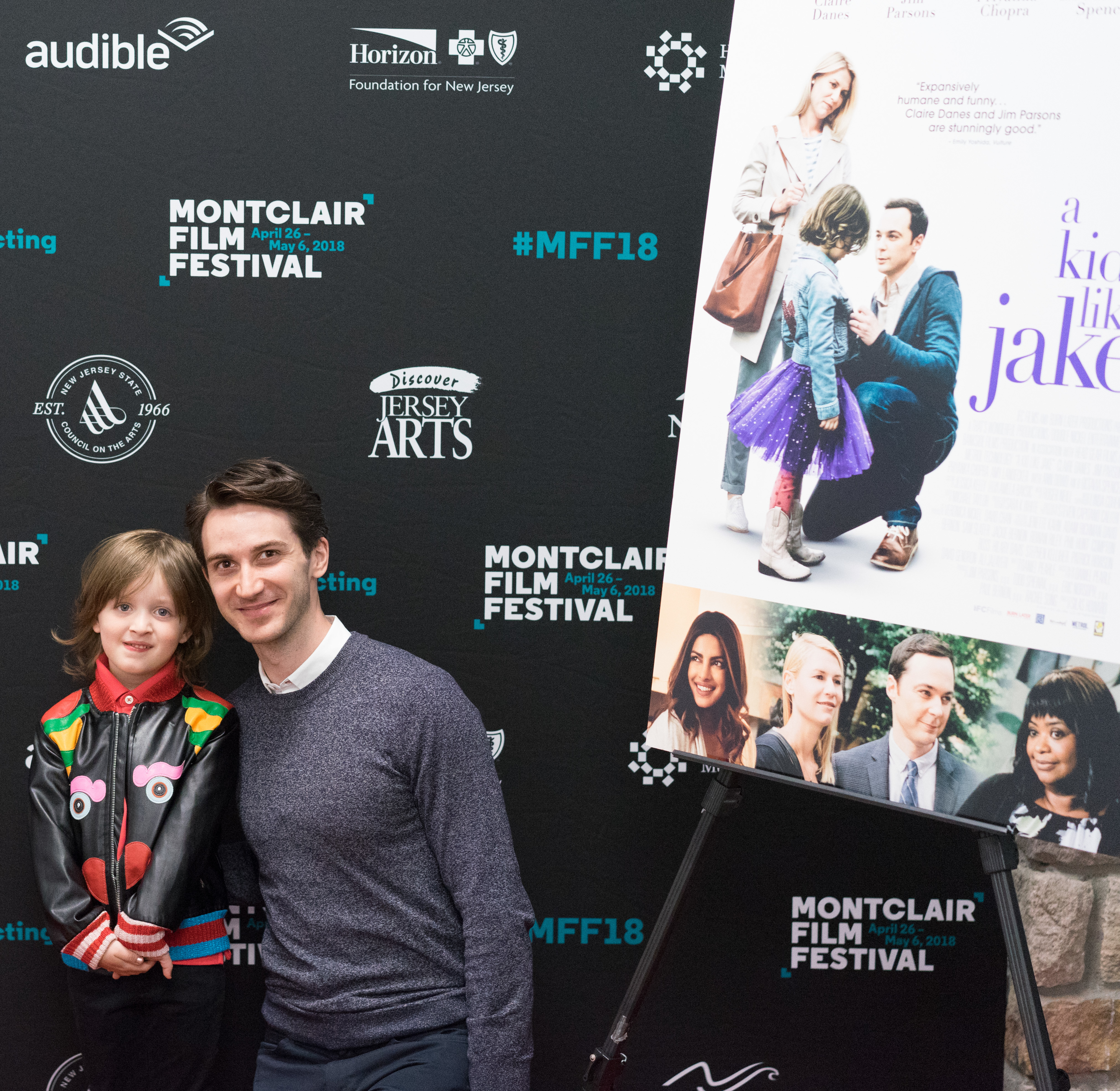 photo by "Aytek Demir / Montclair Film"